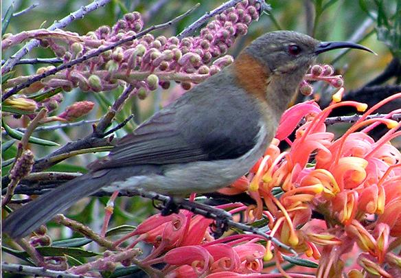 Acanthorhynchus superciliosus, Western spinebill, Quedjinup, Western Australia.